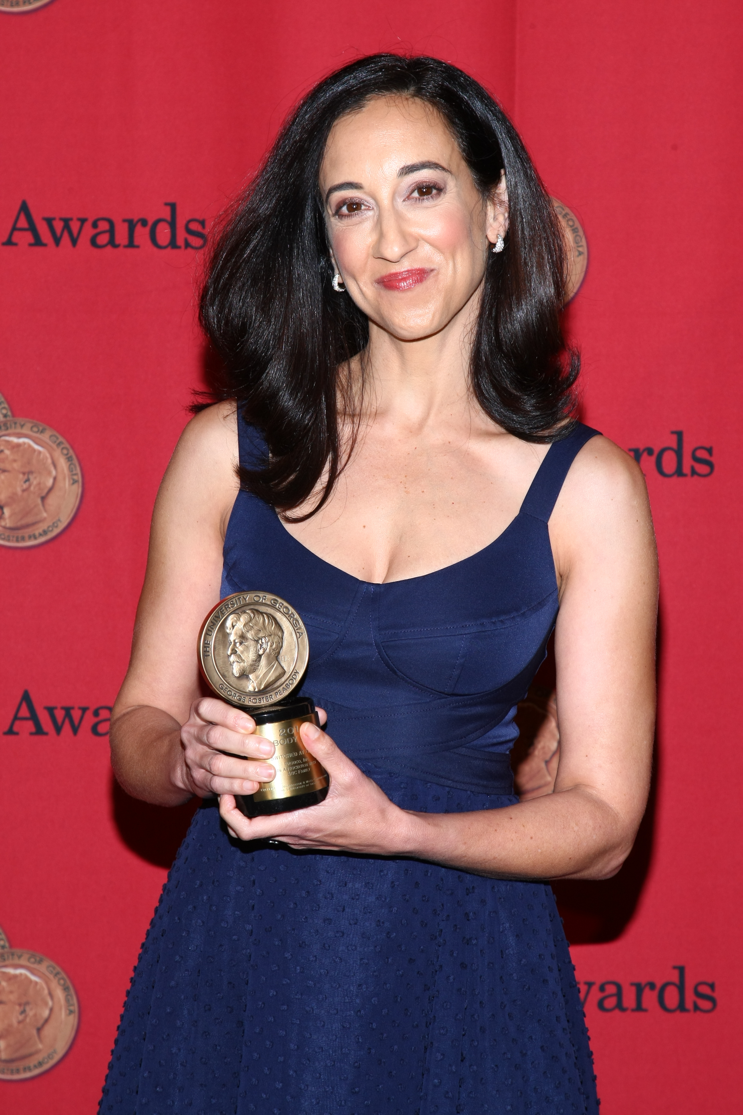 PHOTO CREDIT: ANDERS KRUSBERG / PEABODY AWARDS 72nd Annual Peabody Awards Luncheon Waldorf-Astoria Hotel May 20, 2013